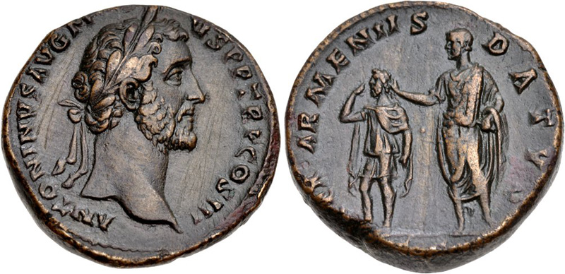 Antoninus Pius. AD 138-161. Æ Sestertius (30mm, 26.62 g, 12h). Rome mint. Struck circa AD 141-143. ANTONINVS AVG PI-VS P P TR P COS III Laureate head right REX ARMENIIS DATVS, Pius standing left, holding roll and placing hand on head of Armenian king, who raises hand to adjust tiara. RIC III 619; Banti 322. Good VF, brown patina, old cleaning scratches in fields. As Rome and Parthia (and, later, the Sasanians) vied with one another for control of the border territories in eastern Anatolia and northrn Syria, the kingdom of Armenia became a crucial prize for both. With a client-king installed on its throne, Armenia could serve as an important buffer for either empire. Thus, the appointment of a new ruler to the Armenian throne was an important event. Given that this sestertius was struck during the third consulship of Pius (AD 140-144), the only possible candidate for the new Armenian king represented here is Sohemo (first reign, circa AD 140/44-161).